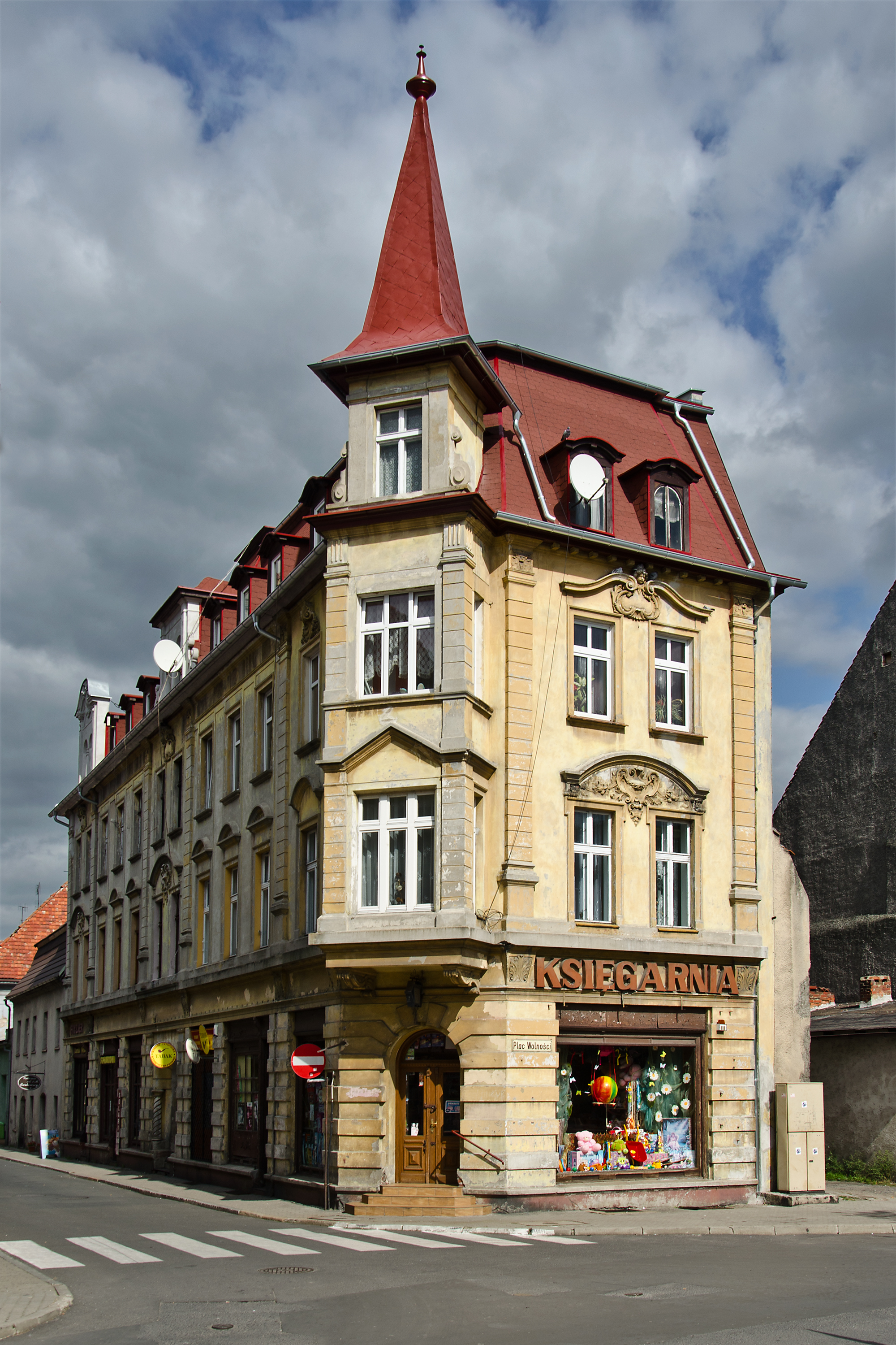 Hous on the Betleja Street 2. Mirsk. Poland.